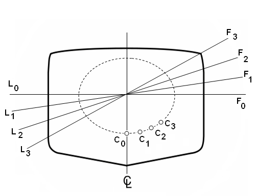 Center of bouyancy